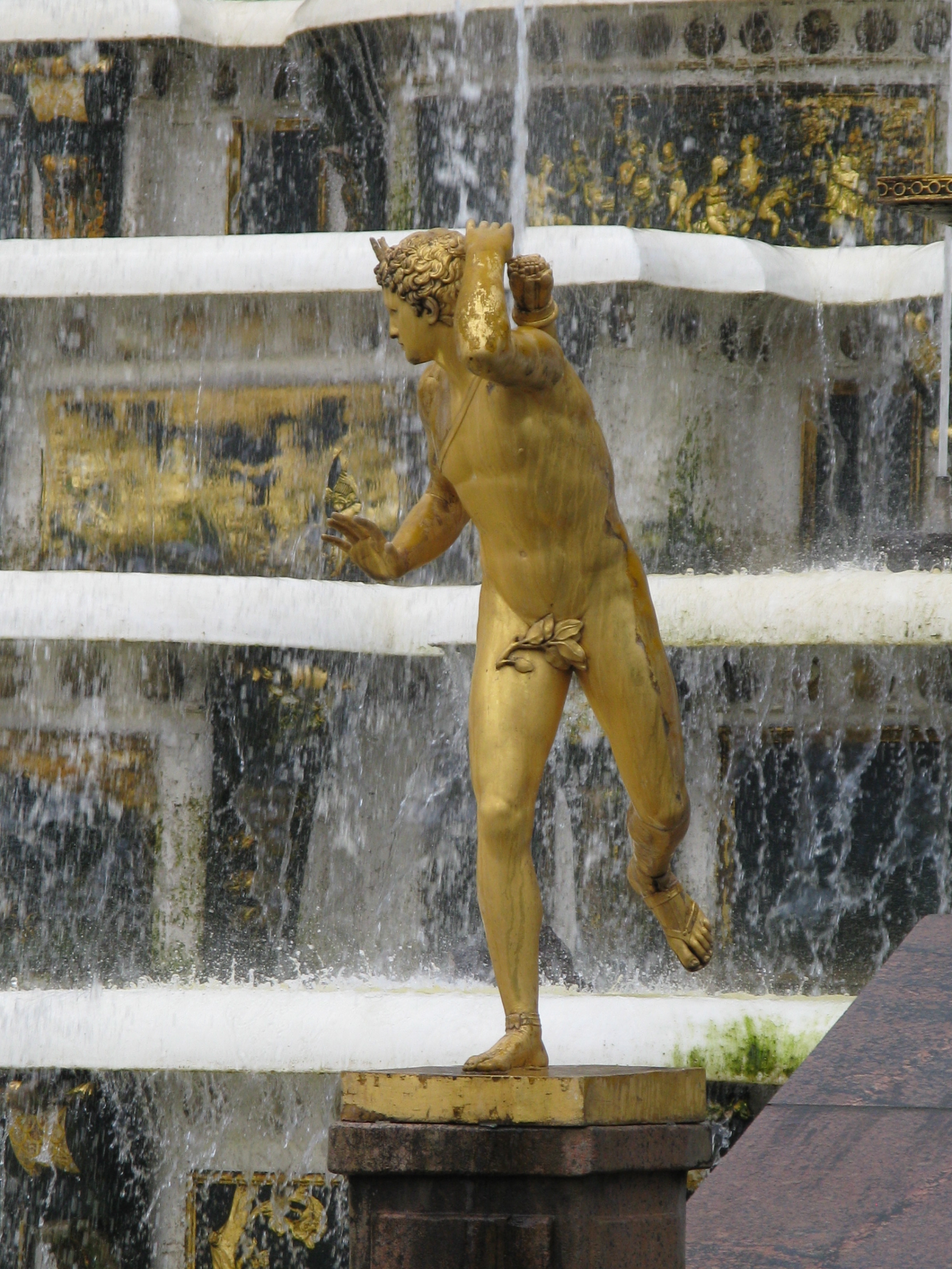 Actaeon at Grand Cascade of Peterhof.